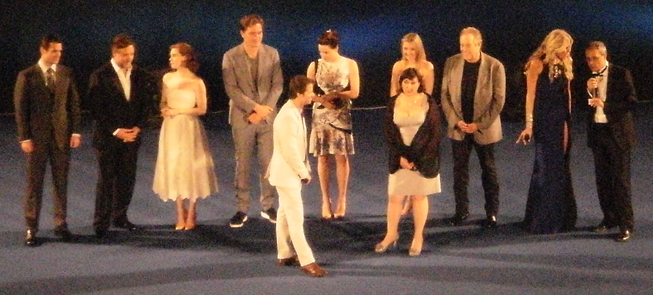 The cast of Man of Steel at Taormina Film Fest 2013, Italian premiere of the movie.Front: the director Zack Snyder and the Italian language interpreter. Behind from left: Henry Cavill (Clark Kent/Kal-El), Russell Crowe (Jor-El), Amy Adams (Lois Lane), Michael Shannon (General Zod), Antje Traue (Faora), executive producers Deborah Snyder and Charles Roven, Tiziana Rocca (presenter of the show) and Mario Sesti (art director of the Festival).